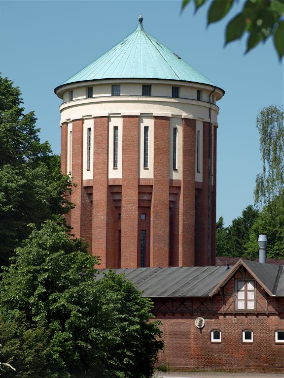 Hamburg-Langenhorn (Germany), water tower Ochsenzoll), photo 2010